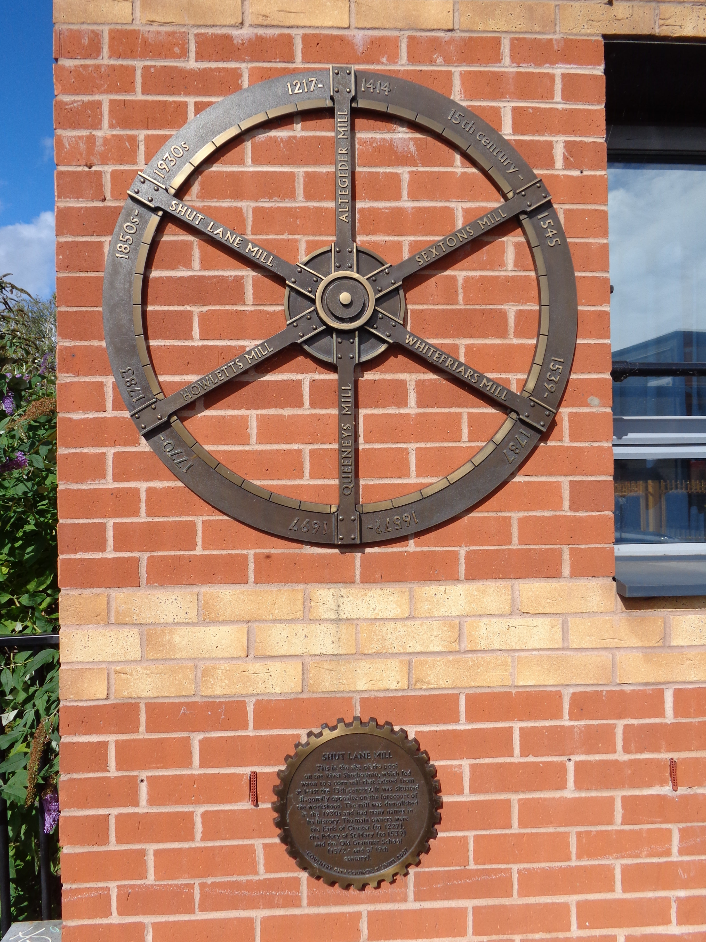 Shut Lane Mill, Gulson Road, Coventry